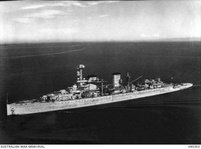 The Dutch Cruiser Java, which was sunk by the Imperial Japanese Navy on 27 February 1942 during the Battle of the Java Sea.